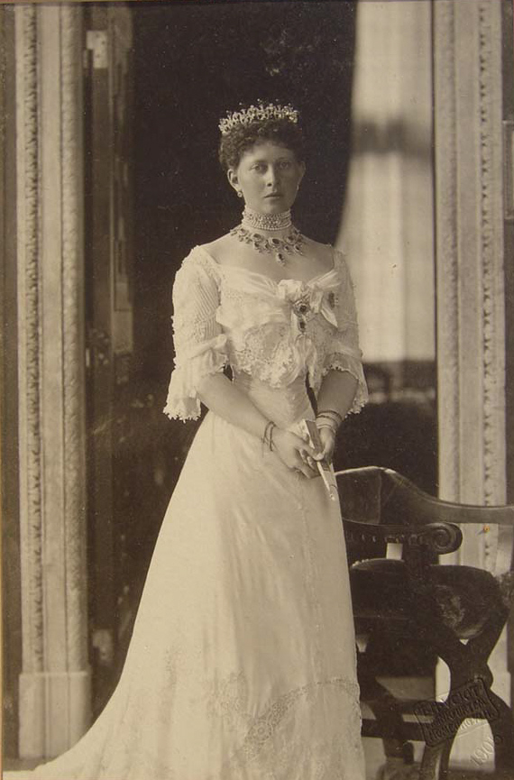 Landgravine Margaret of Hesse-Cassel, née Princess of Prussia.